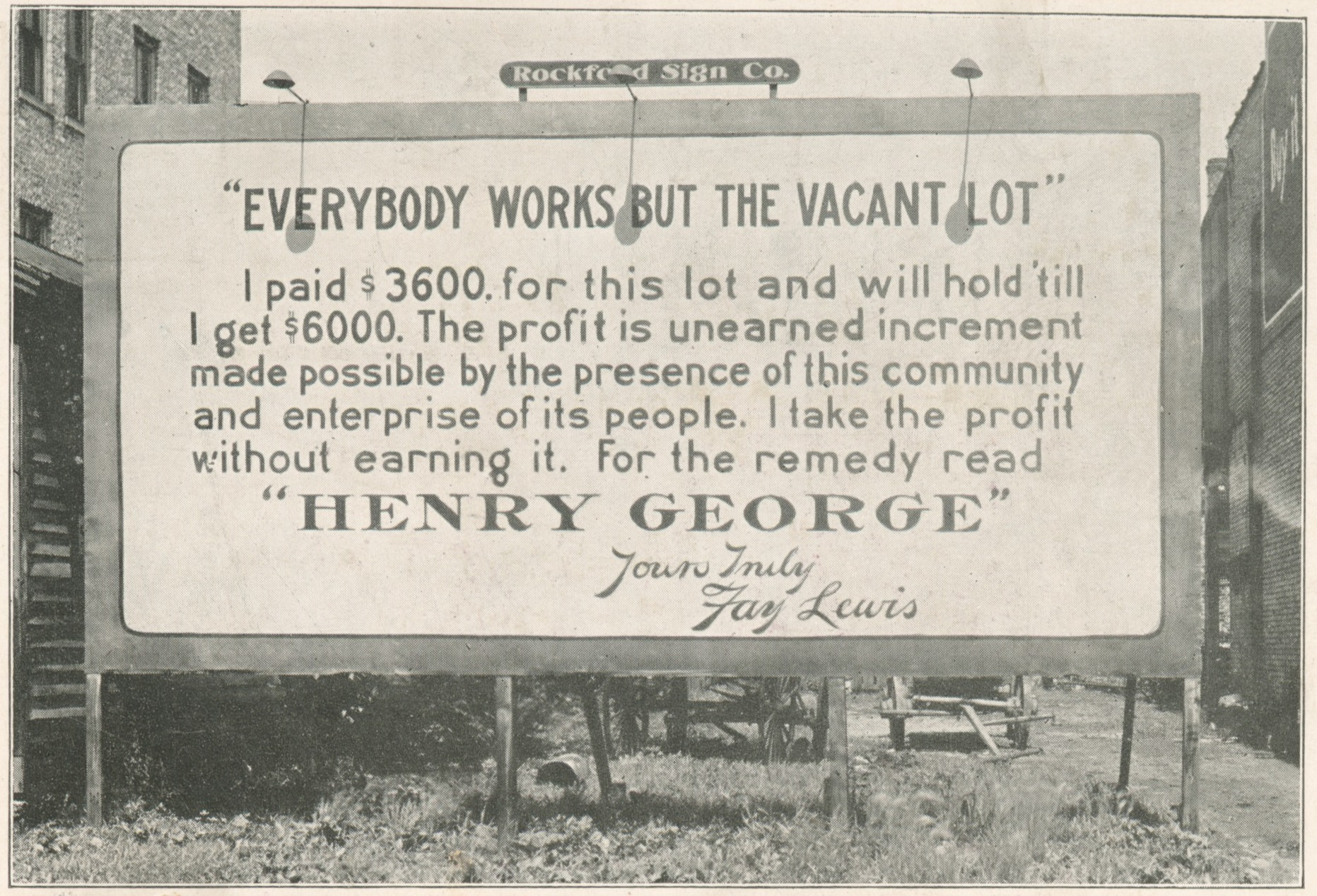 Everybody works but the vacant lot", Henry George. [A postcard.] COLLECTION: The single tax: scrapbook with photographs